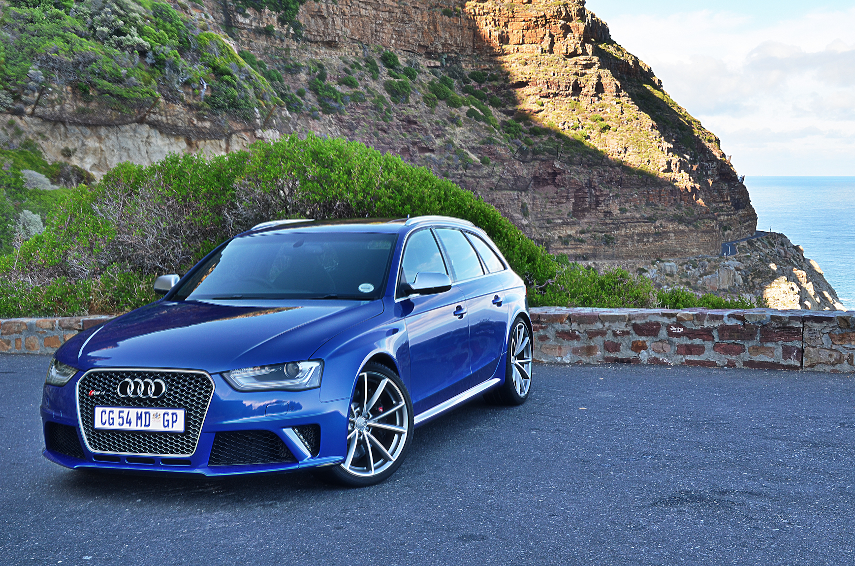 From a recent review for Rocking Cars